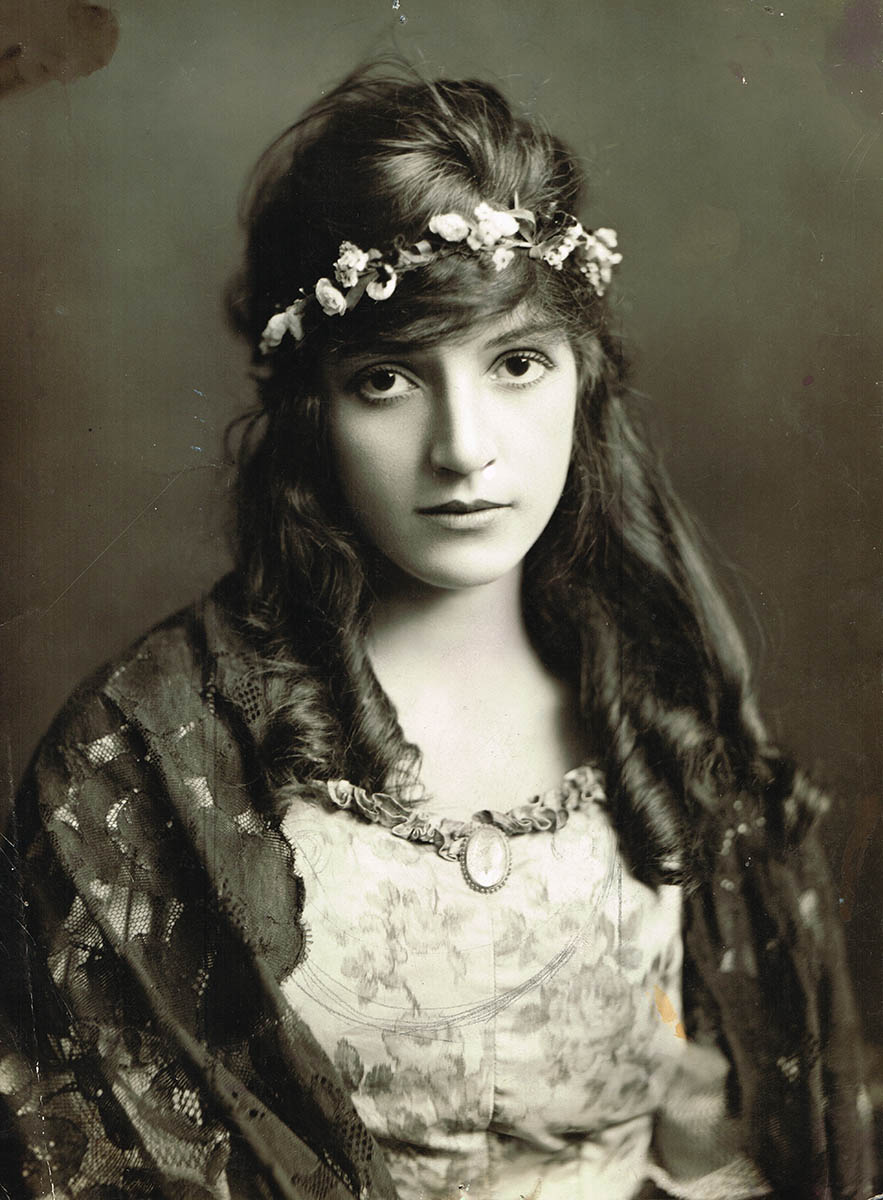 Publicity photo of Miriam Cooper from Stars of the Photoplay